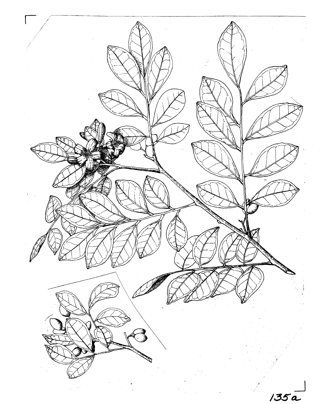 Murraya paniculata line draing